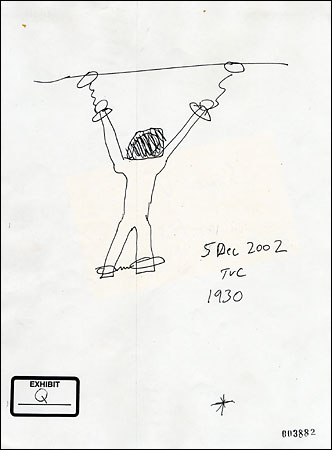 A sketch by Thomas V. Curtis, a former Reserve M.P. sergeant, showing how Dilawar was allegedly chained to the ceiling of his cell. Image obtained from: Afbeelding:Bagram prisoner abuse.184.1.450.jpg